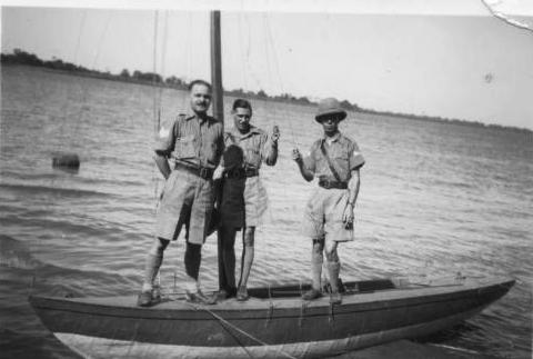 Dad [L] Bingham, and Smith [R] posing on a fishing boat on the River Nile at Atbara. All three belonging to the 4th Indian Division which was moving south to the campaign in Eritrea.